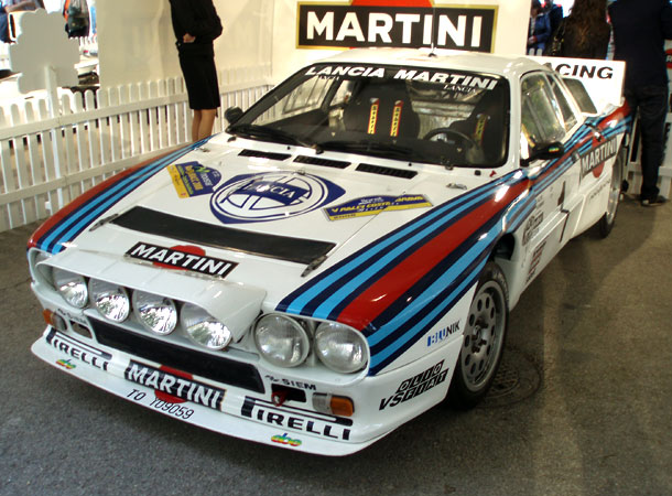 A Lancia Rally 037.